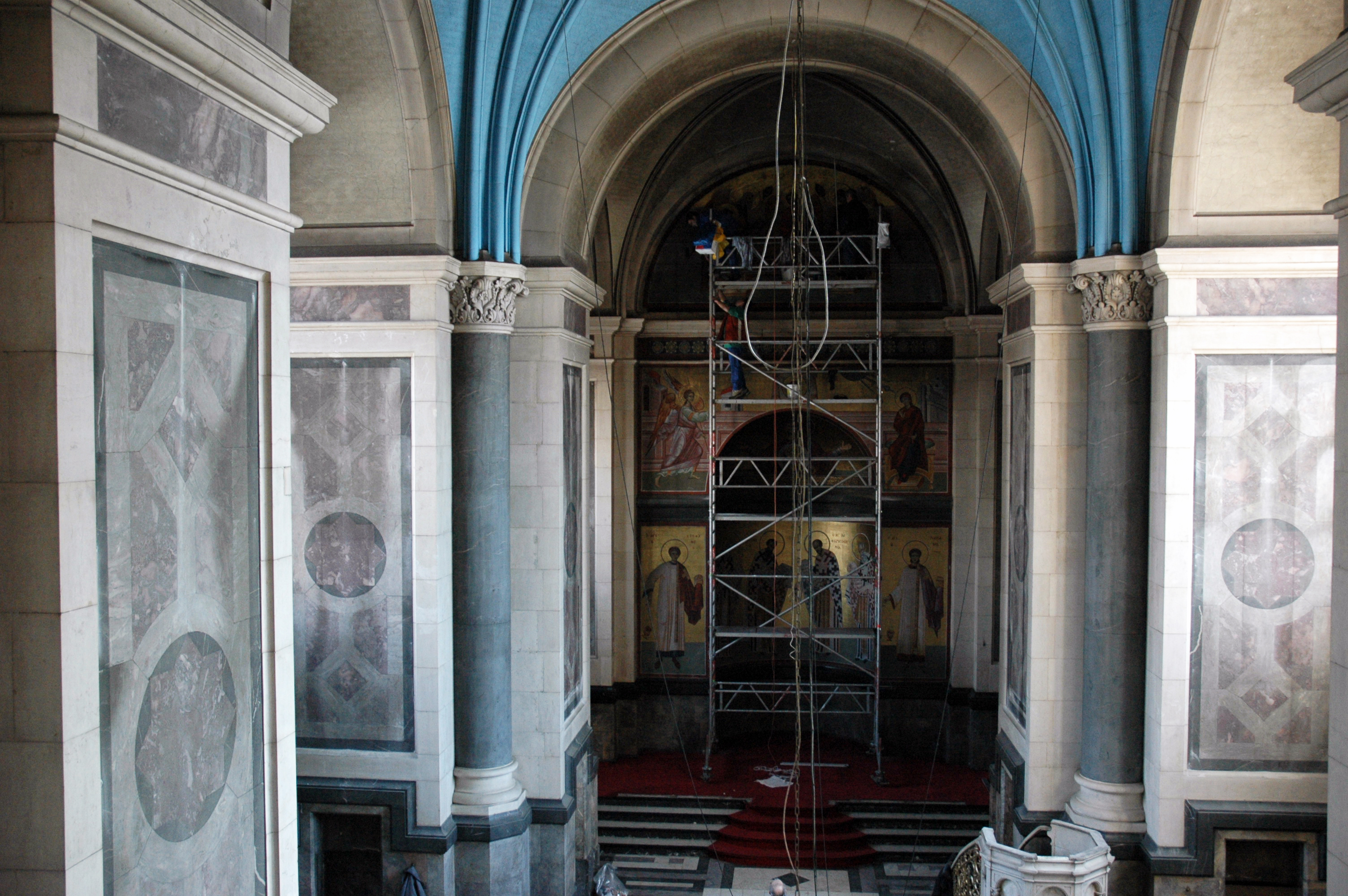 Marmorkapelle Schröderstift